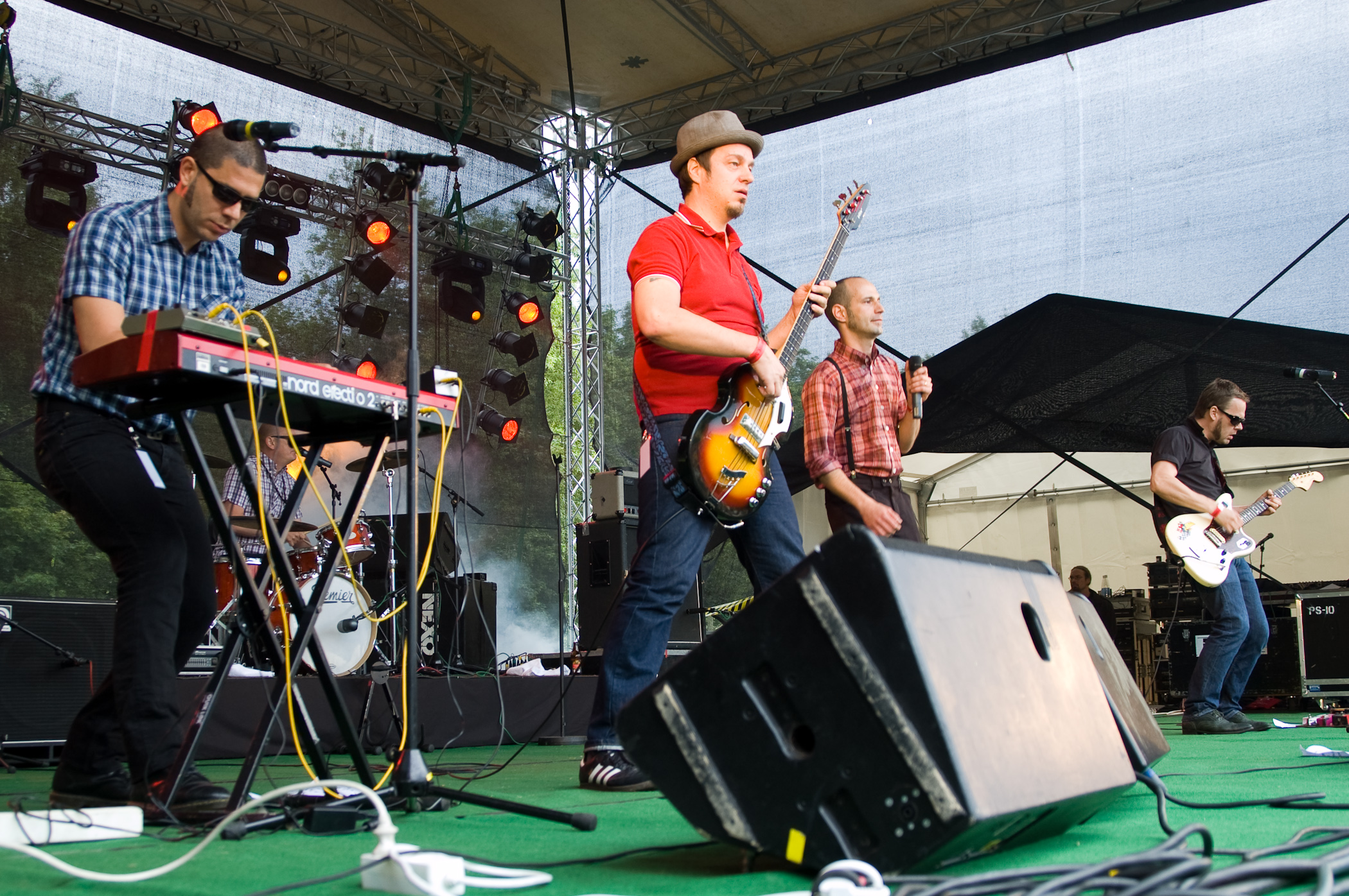 The Valkyrians performing at the Ilosaarirock festival on the 12th of July 2008 in Joensuu, Finland.